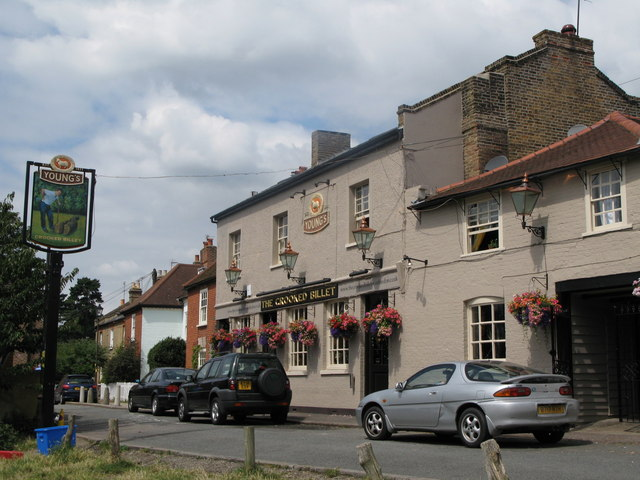 The Crooked Billet, Crooked Billet, SW19. Next door to 897769.